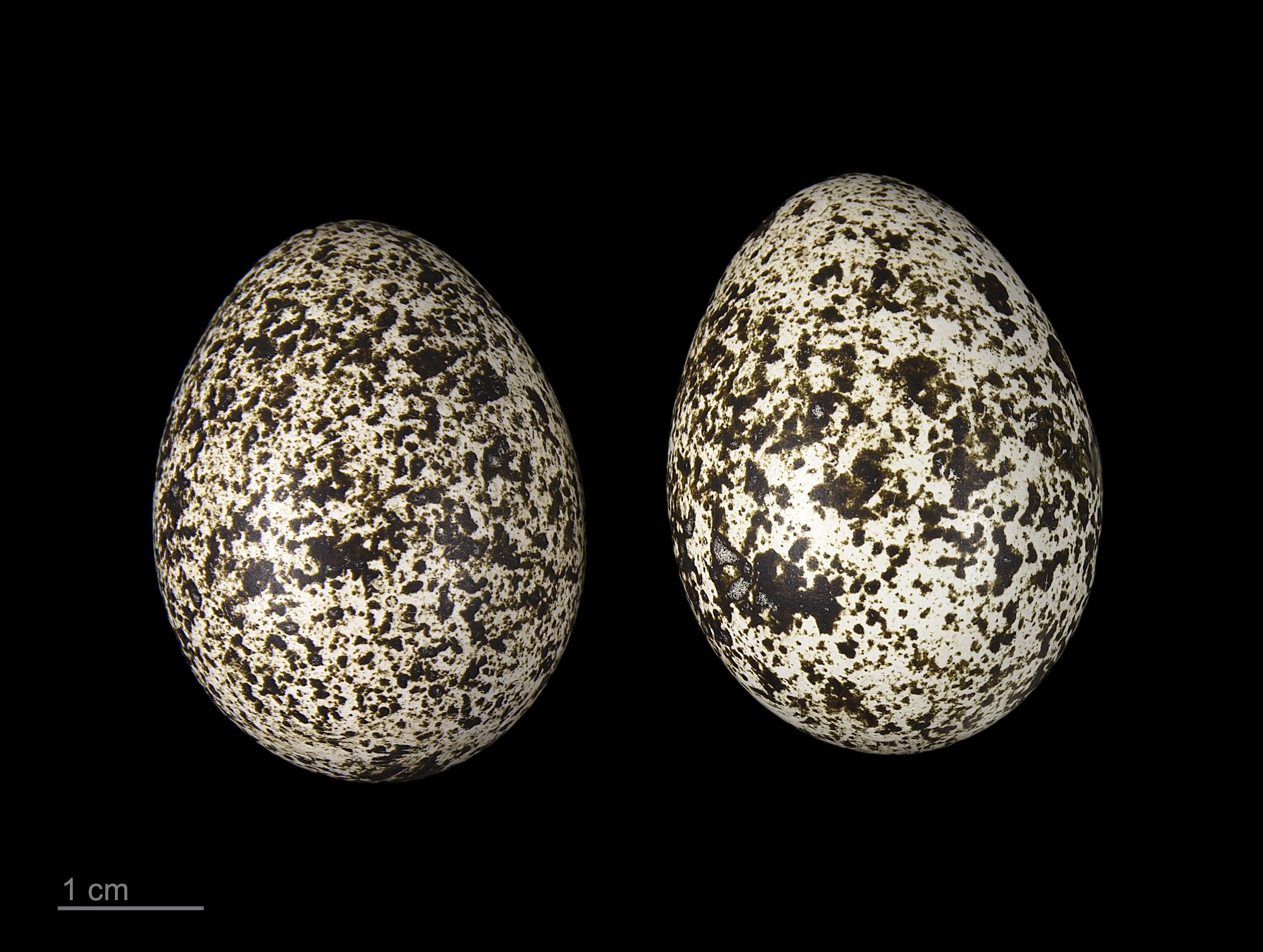 Egg of Lagopus muta helveticus Collection of Jacques Perrin de Brichambaut.